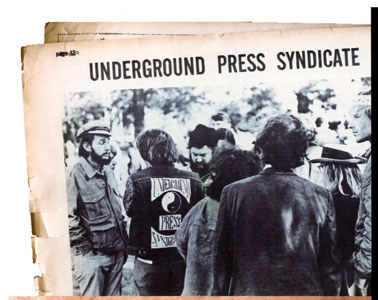 To Wikipedia Editors, The attached image -- Which William Michael Hanks (user: Wmhanks) wishes to use in the Wikipedia article titled "Thorne Webb Dreyer" -- is a scan from an underground newspaper article that qualifies as PD-1978. It was first published in the U.S. underground press in 1967 with no designated copyright notice. The image depicts the first meeting of the Underground Press Syndicate, attended by representatives of The Rag including Thorne Dreyer, the subject of this article. Regards, Thorne Webb Dreyer -- Thorne Webb Dreyer The New Journalism Project The Rag Blog Rag Radio dreyer at ups meeting.jpg